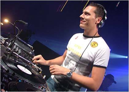 Image taken at the club. Elements of Life Tour.